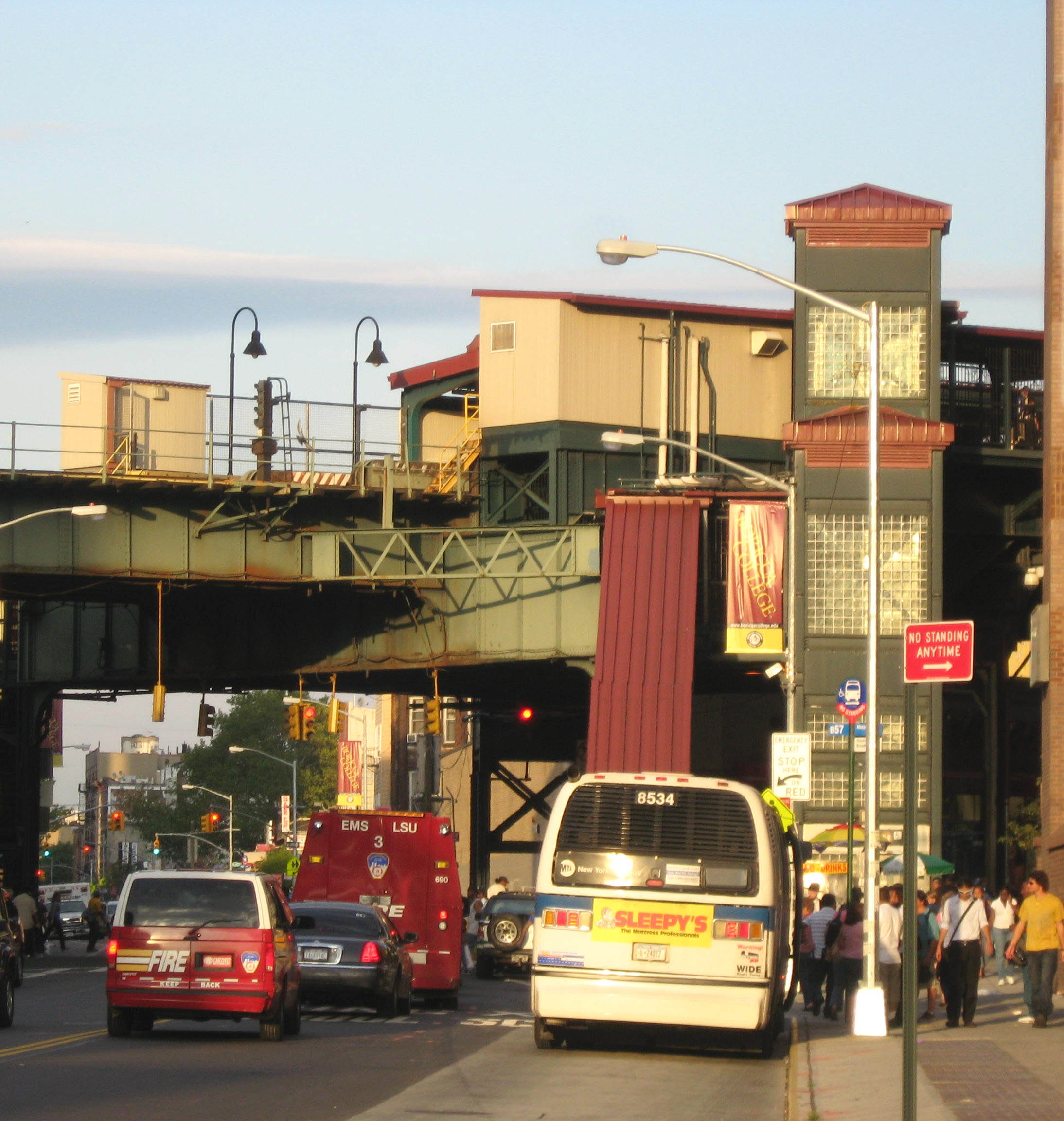 Looking east along Flushing Avenue at Flushing Avenue (BMT Jamaica Line) on a sunny late afternoon. Woodhill Hospital is off camera to the right. ZIP 11206.